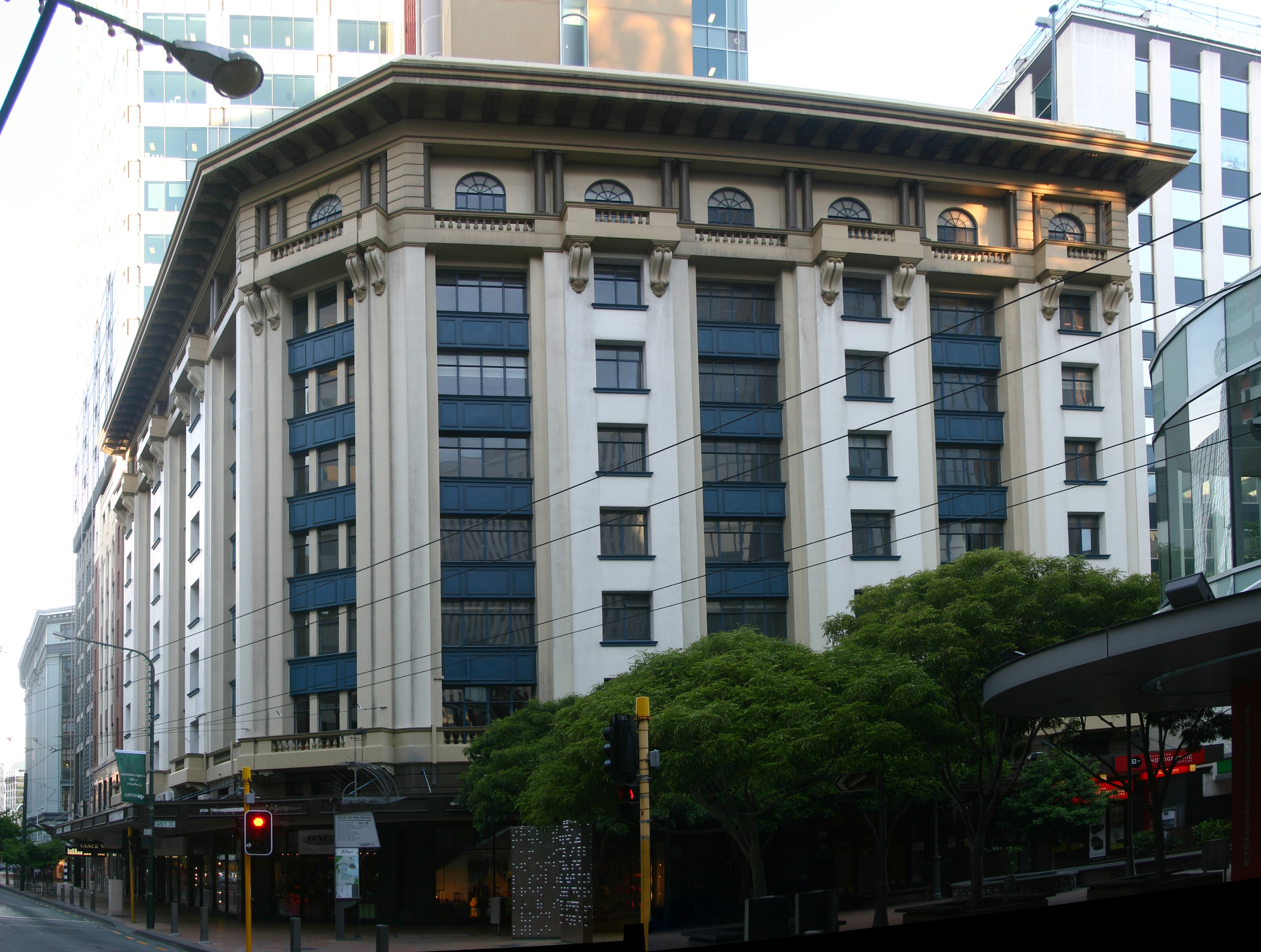 The Australian Temperance and General Mutual Life Assurance Society Limited building on Lambton Quay, constructed in 1928 (commonly known as the Harcourt's Building). Wellington, New Zealand. Panorama of four images stitched together with Hugin using a Panini projection.